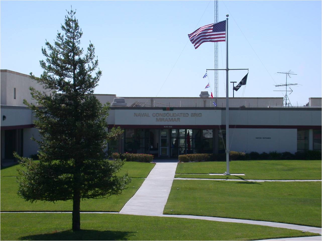 Naval Consolidate Brig, Mirimar CA. The code flags on the left of the standard read "NCBM".